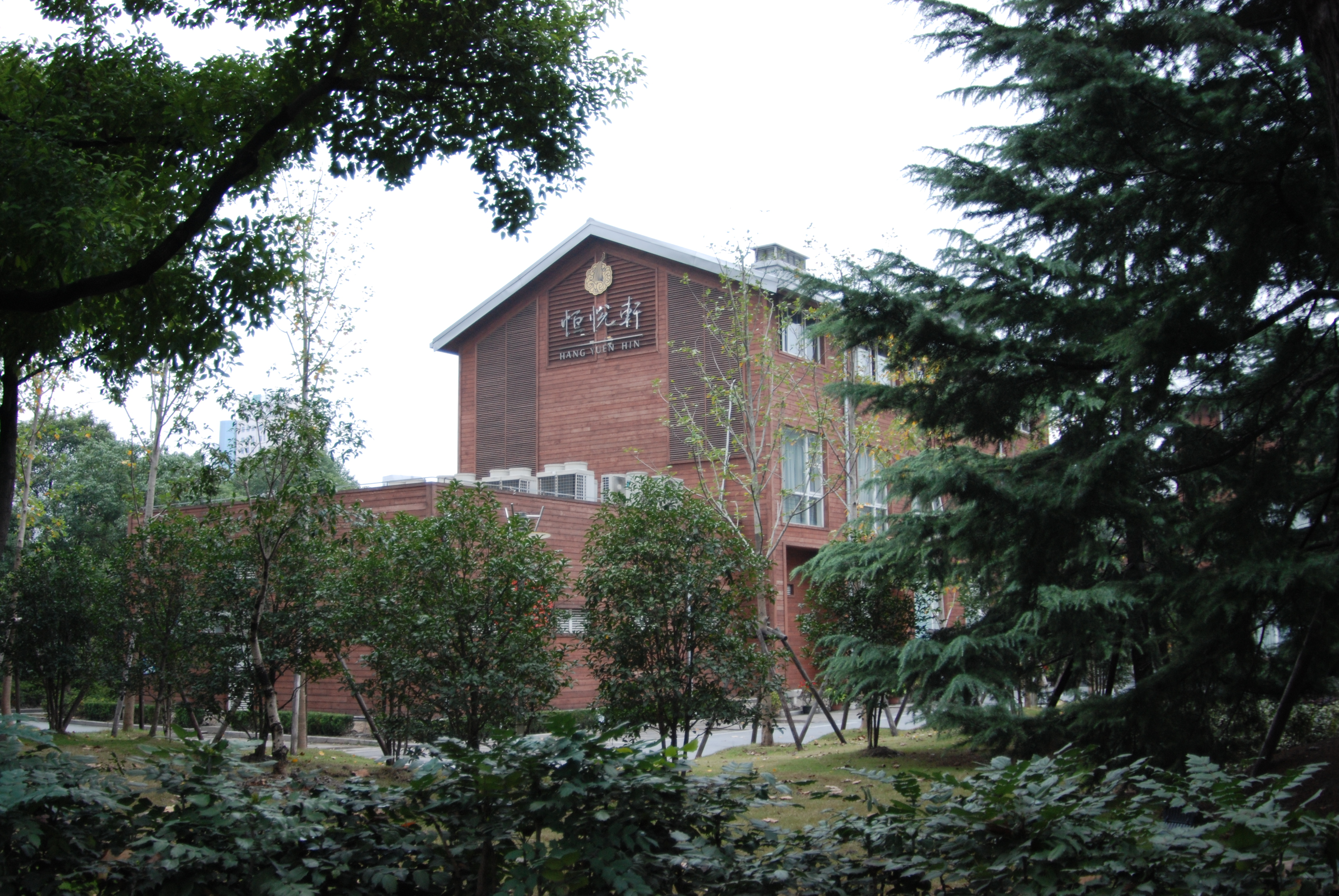 Hang Yuen Hin Restaurant in Xujiahui Park.